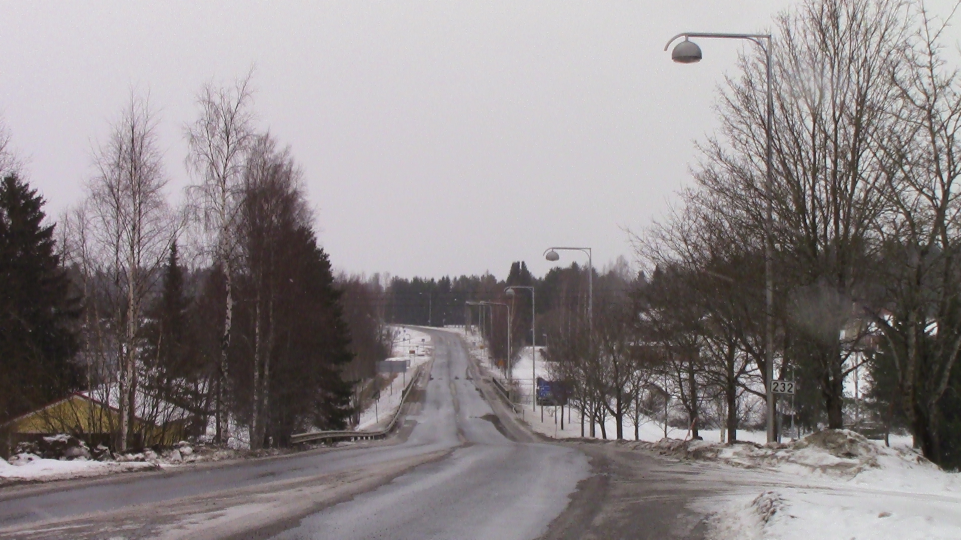 Finnish regional road 232 in Punkalaidun. The road runs from Humppila's Murto to the traffic circle of regional road 230 in Punkalaidun.